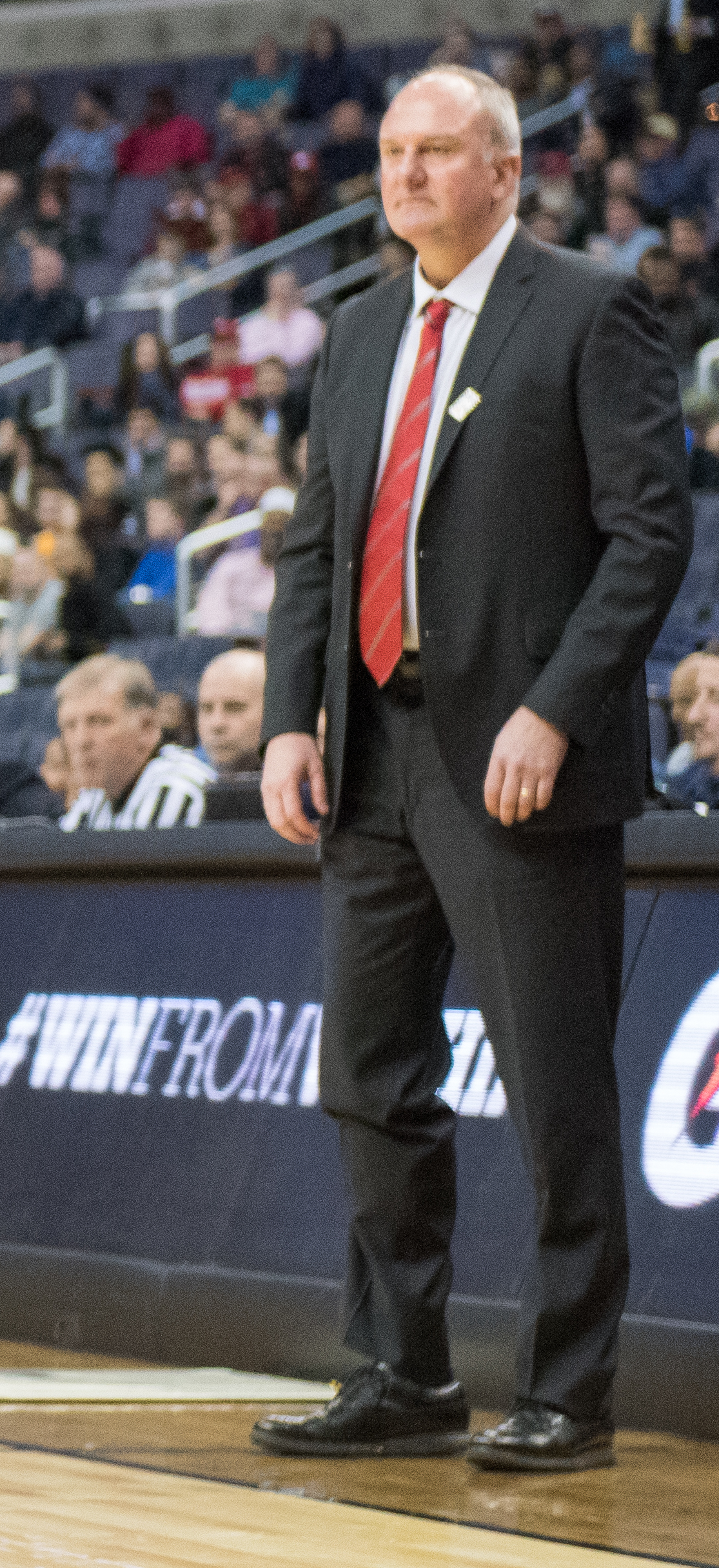 C.J. Jackson of Ohio State vs. Rutgers